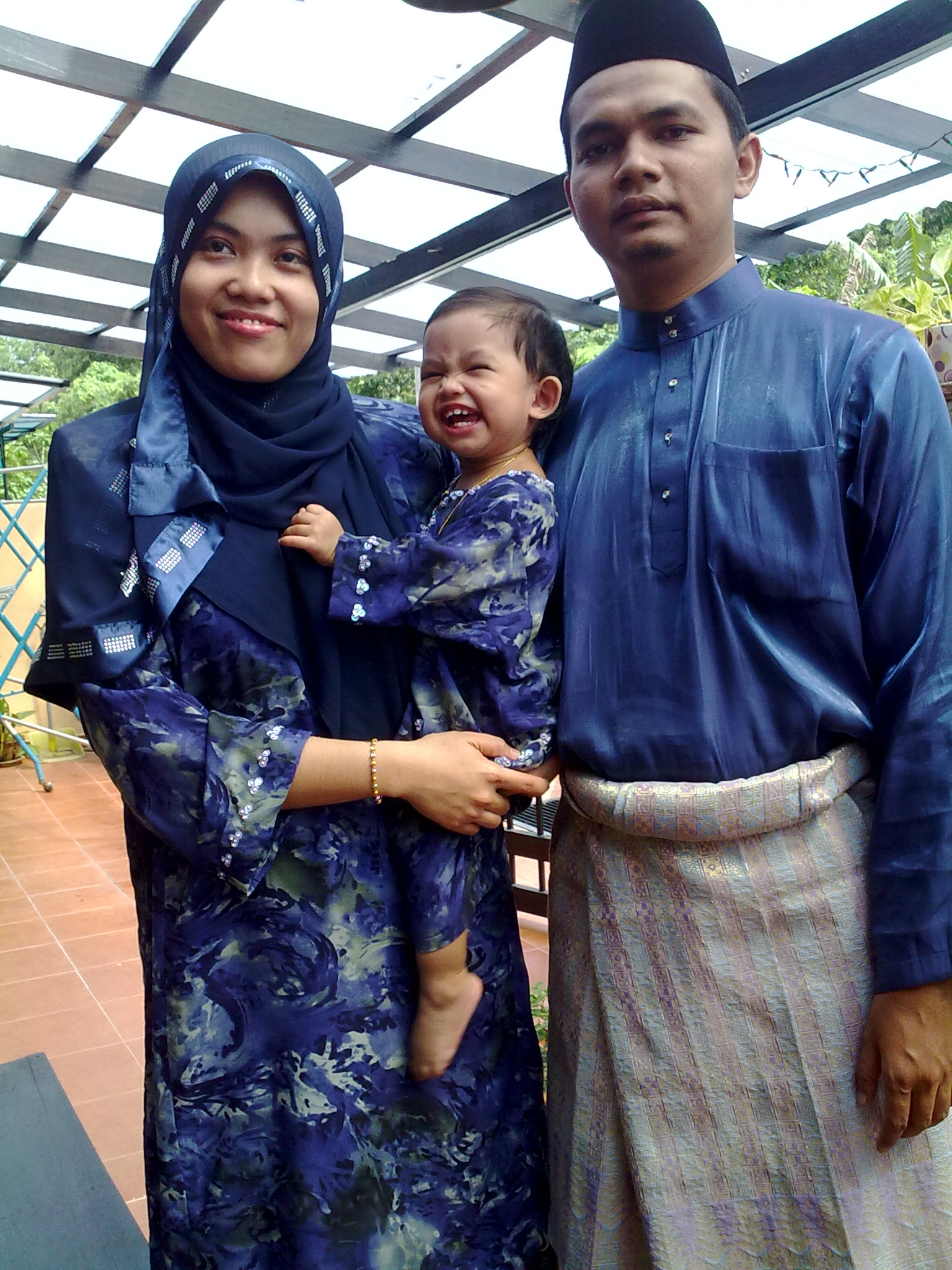 Malay family from Malaysia wearing traditional costume.